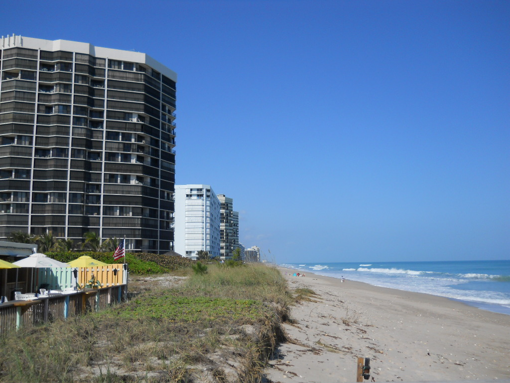 Hutchinson Island South, Florida: Looking north along the beach from the front of Shuckers Restaurant, 9800 South Ocean Drive Jensen Beach, Florida 34957